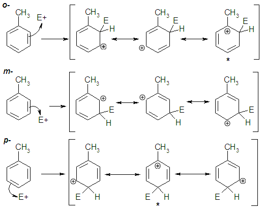 Description: EAS ortho/para inductive director. Source: Myself using ISIS/Draw. Date: 29 January 2007.